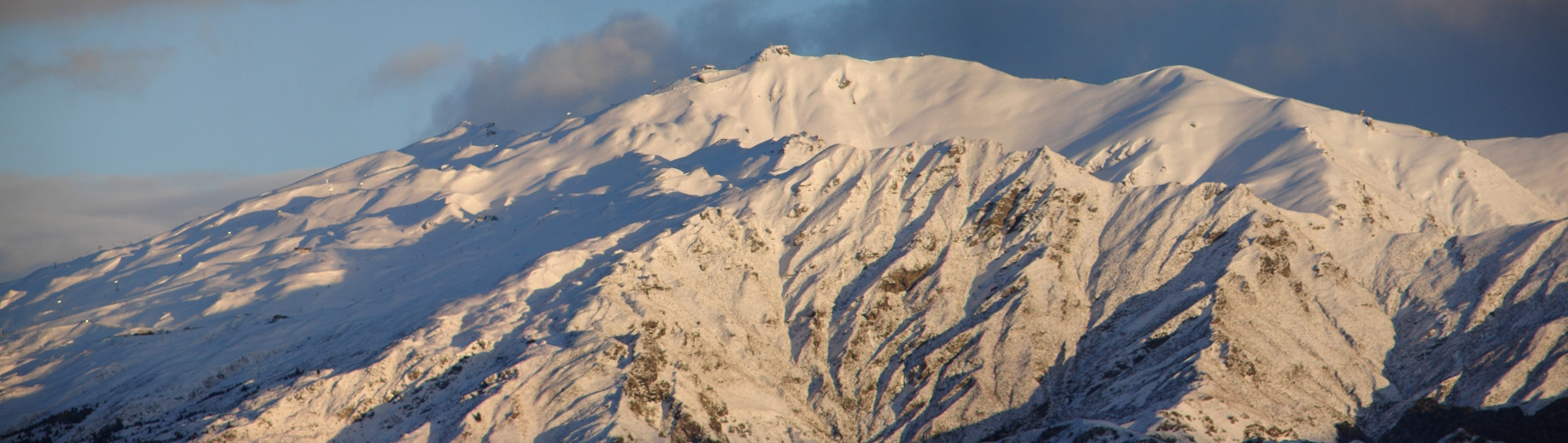 View of Coronet Peak from the East, Arrow Junction (New Zealand)